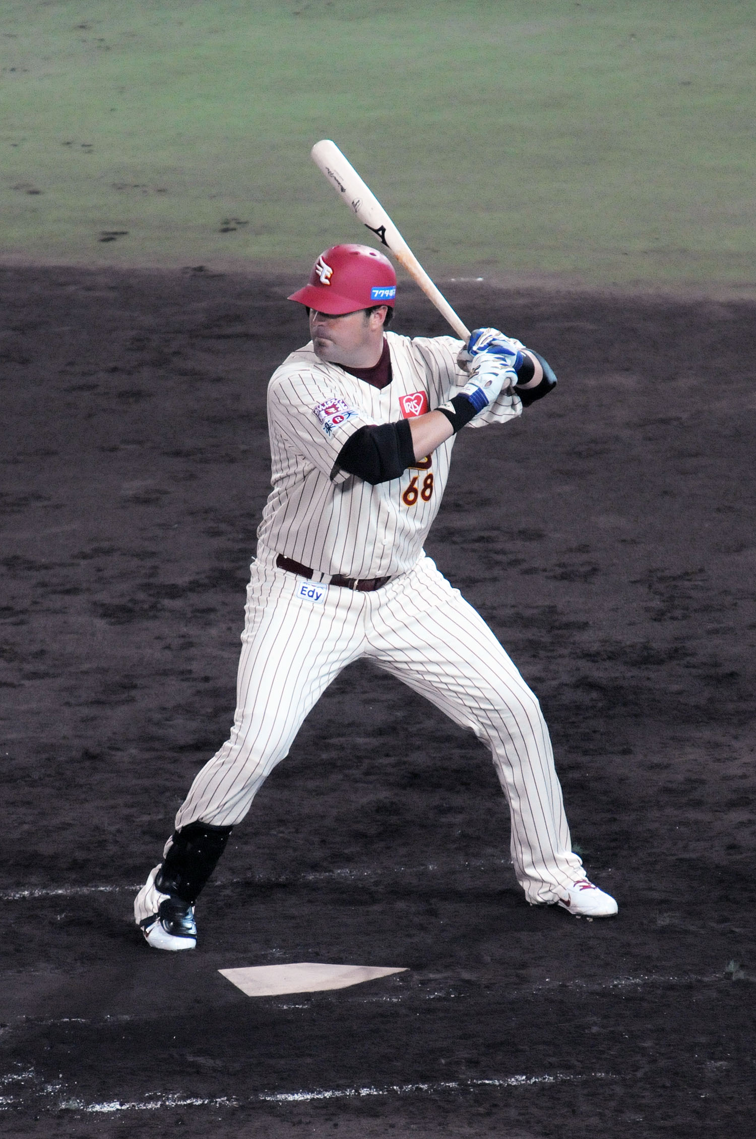 Brett Harper, infielder of the Tohoku Rakuten Golden Eagles, at Akita Prefectural Baseball Stadium.